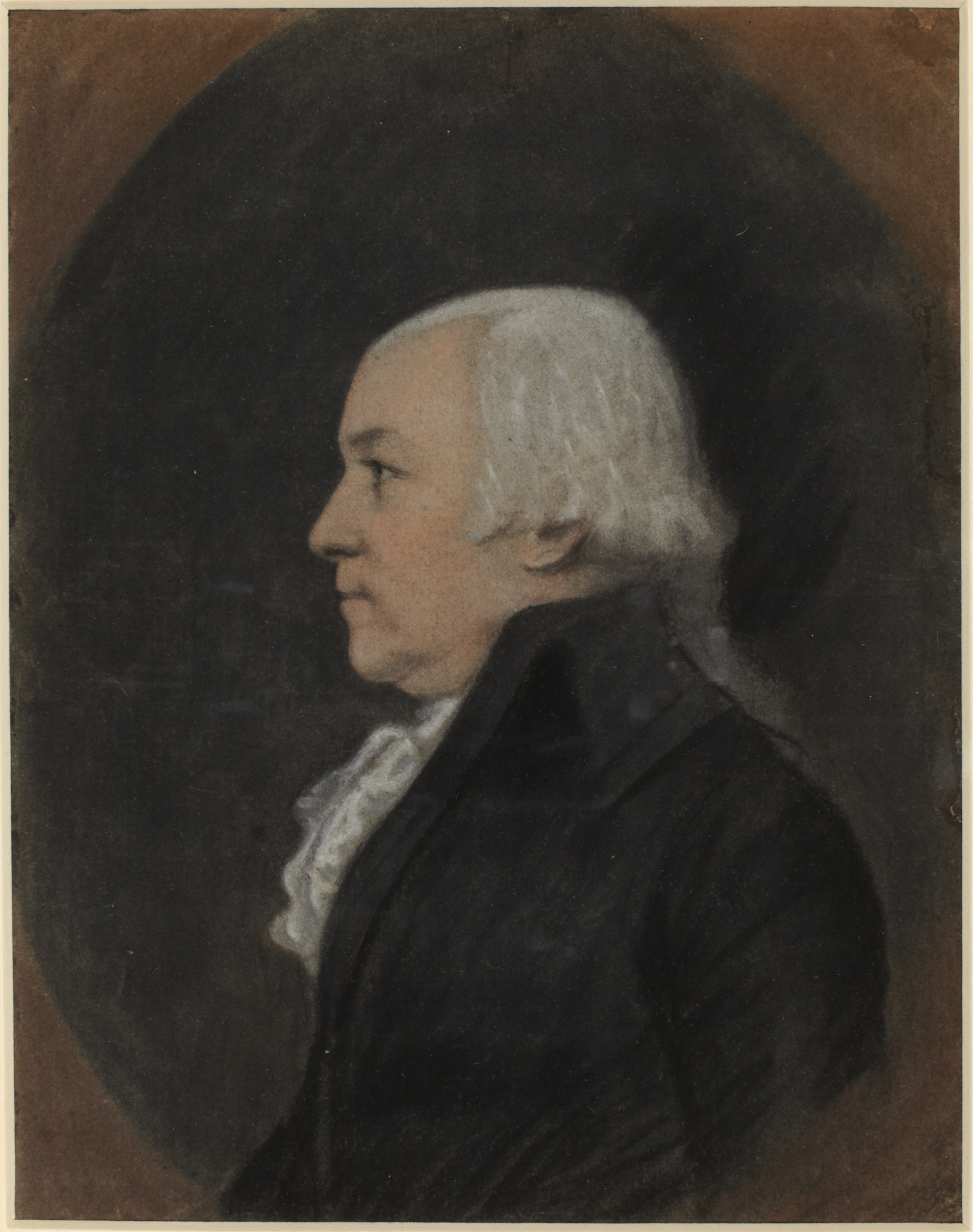 James Sharples, British, 1752–1811 Elias Boudinot IV Pastel on laid paper 23 x 18.7 cm (9 1/16 x 7 3/8 in.) Museum purchase, gift of Mrs. Landon K. Thorne and bequest of Emma L. Martin x1968-2 The information shown has not been approved by a curator.